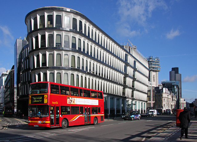 Queen Victoria Street, City of London. The building is "30 Cannon Street". It was designed for Credit Lyonnais by Whinney, Son and Austen Hall. Credit Lyonnais have subsequently moved to new offices. The road on the left is Bread Street. In the distance Tower 42 is visible. First Centrewest bus TNA33354 (reg. LK53 FDA) is operating London Buses route 23 to Ladbrook Grove.